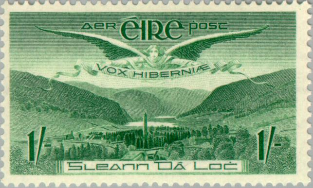 Irish airmail postage stamp - value 1 shilling issued April 4, 1949. Vox Hibernia flying over Glendalough, Co. Wicklow